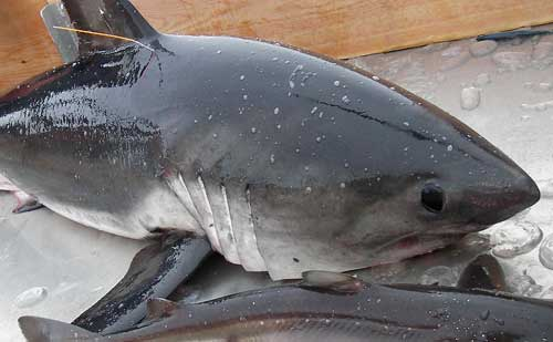 Salmon shark (Lamna ditropis) with a spaghetti tag